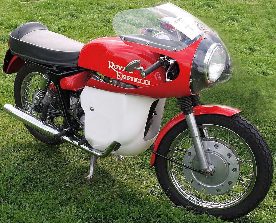 Royal Enfield Continental GT motorcycle showing the factory-specified optional Avon (brandname) fairing produced in complementary colours by motorcycle accessories manufacturer Mitchenall Brothers of Durrington, Wiltshire. This shape of fairing for road-use with headlamp panel, etc., was designated by Royal Enfield as 'Speedflow'